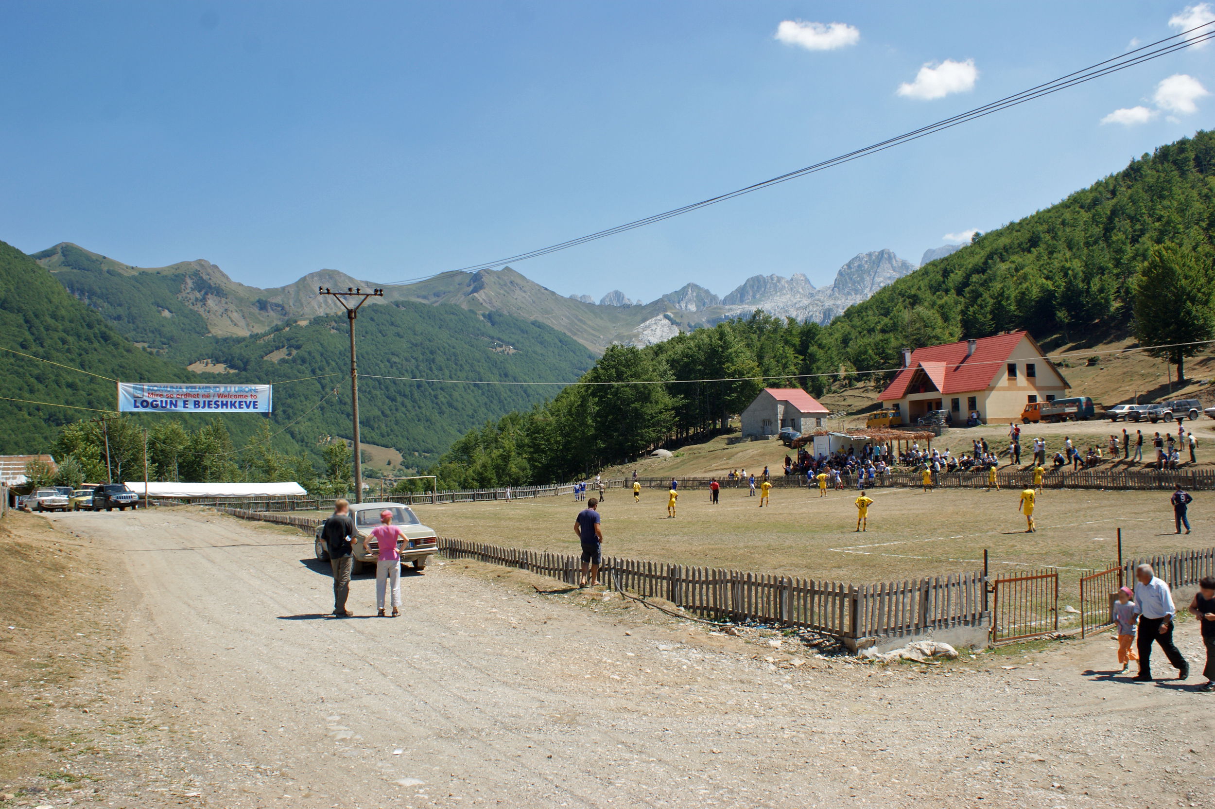 Mountain pass of Qafa e Bordolecit, Northern Albania. Local football teams compete each other some days before the Logu i Bjeshkëve feast